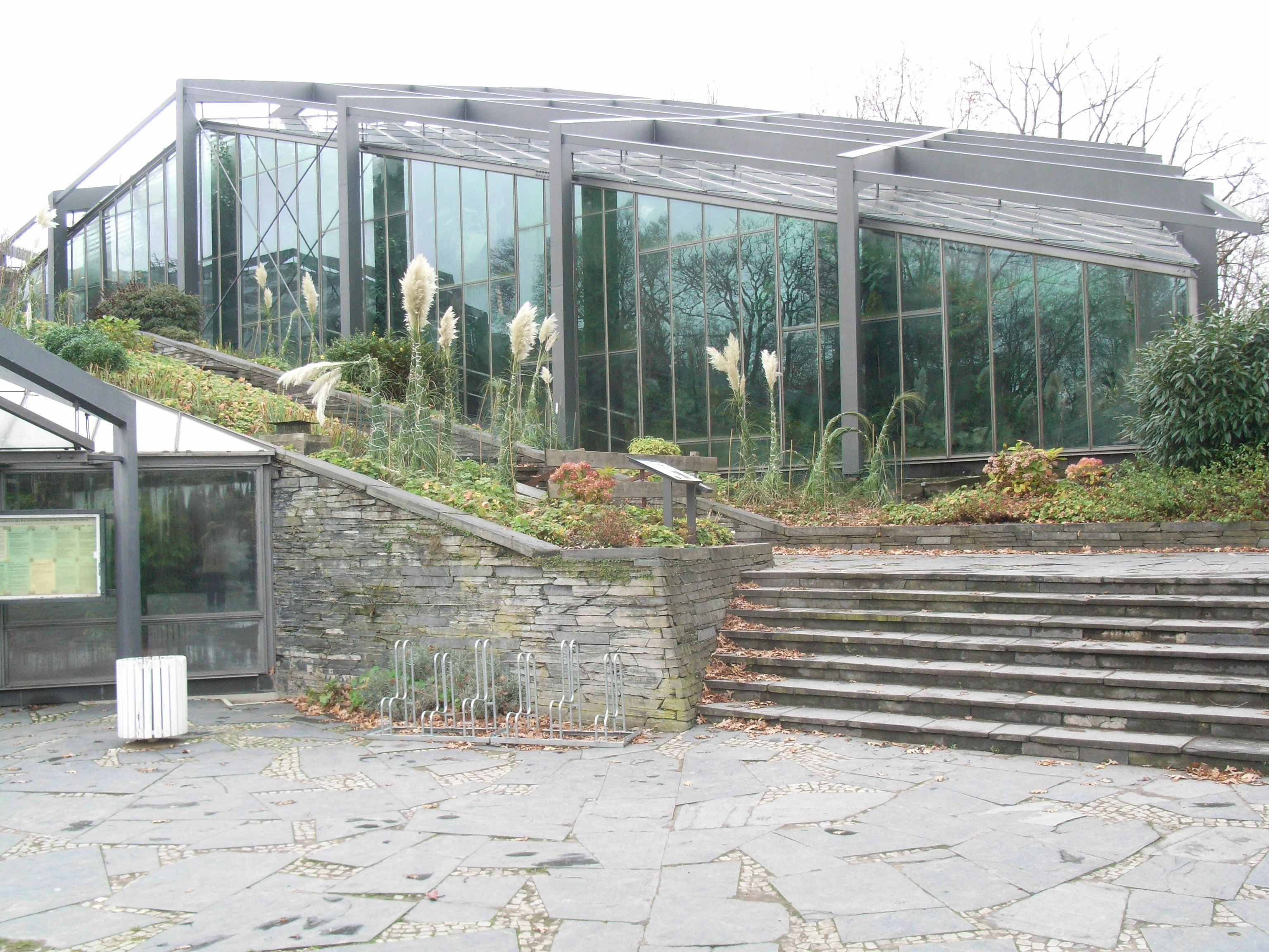 Alter Botanischer Garten Hamburg